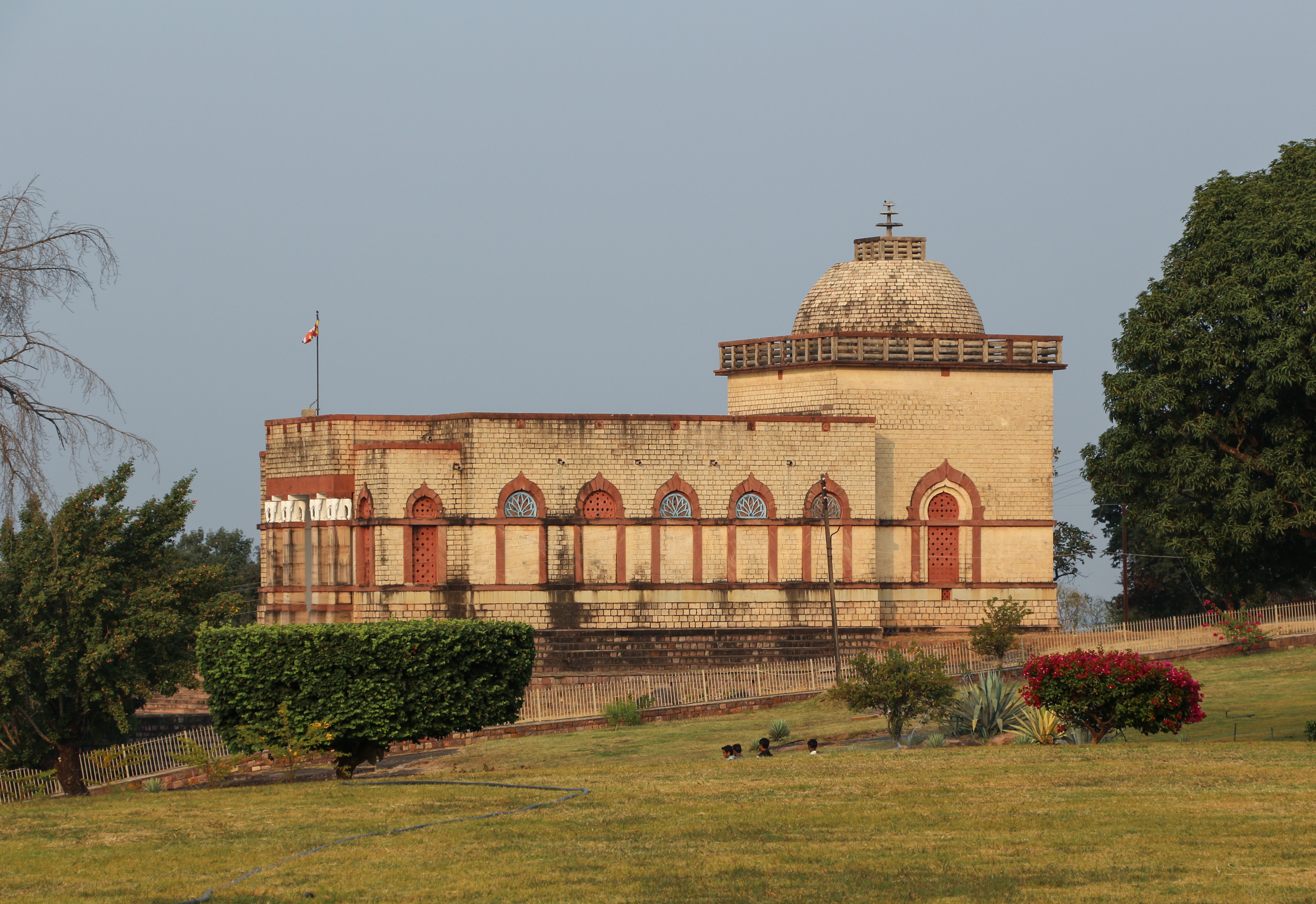 Chetiyagiri Vihar, Mahabodhi Society of Sri Lanka, Sanchi, India